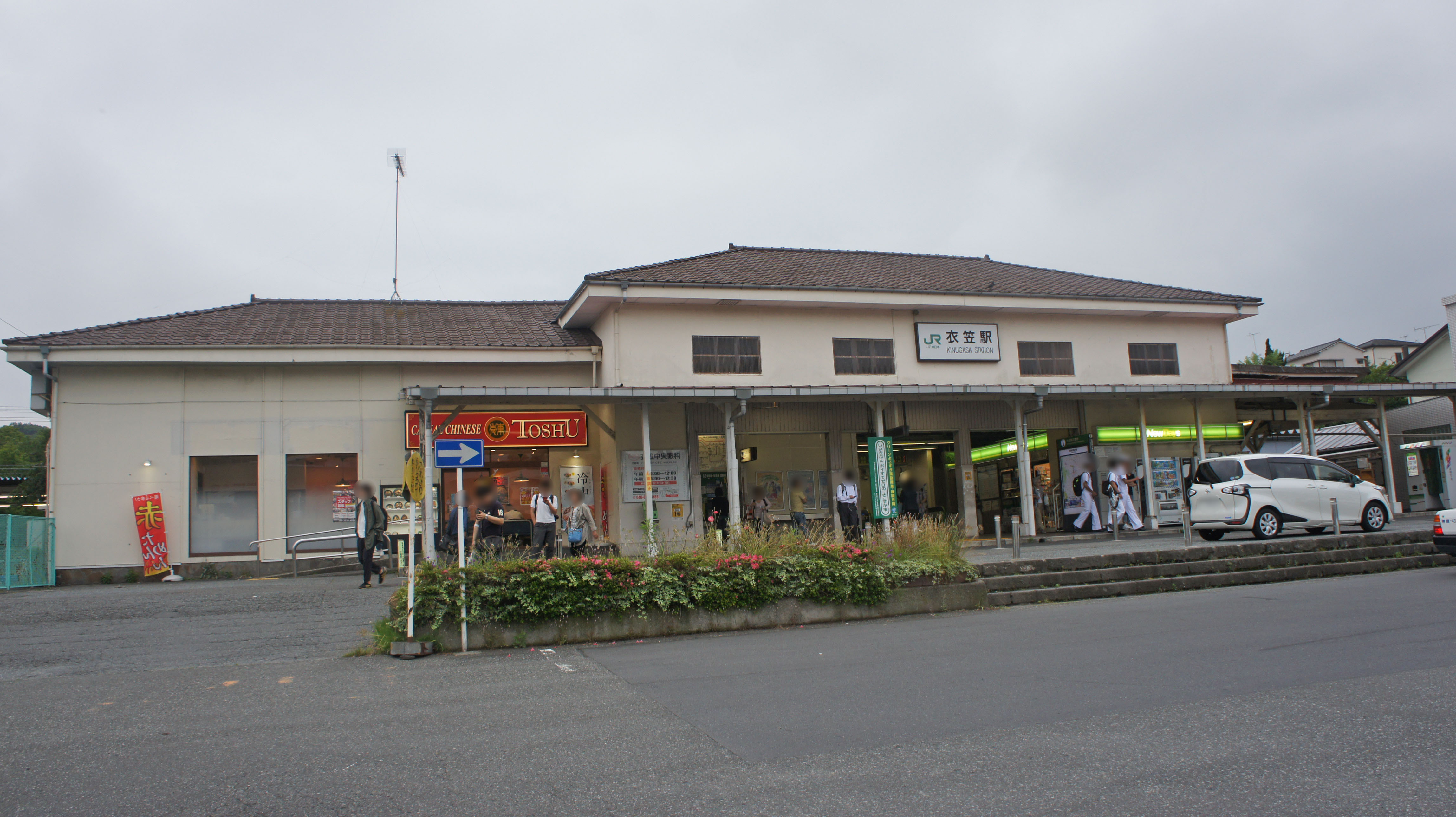 Station building of JR Yokosuka-Line Kinugasa Station